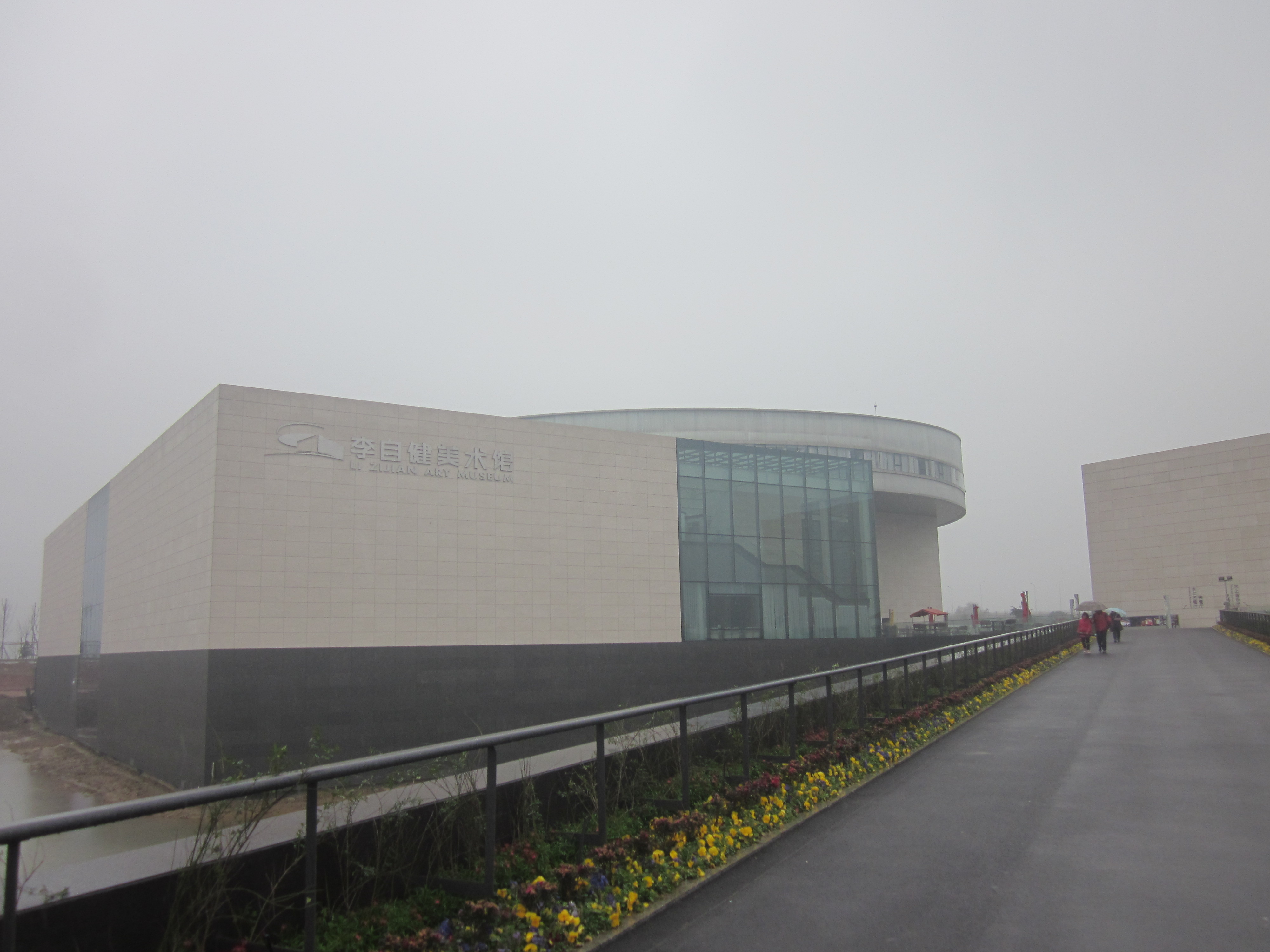 Li Zijian Art Museum in 2017.